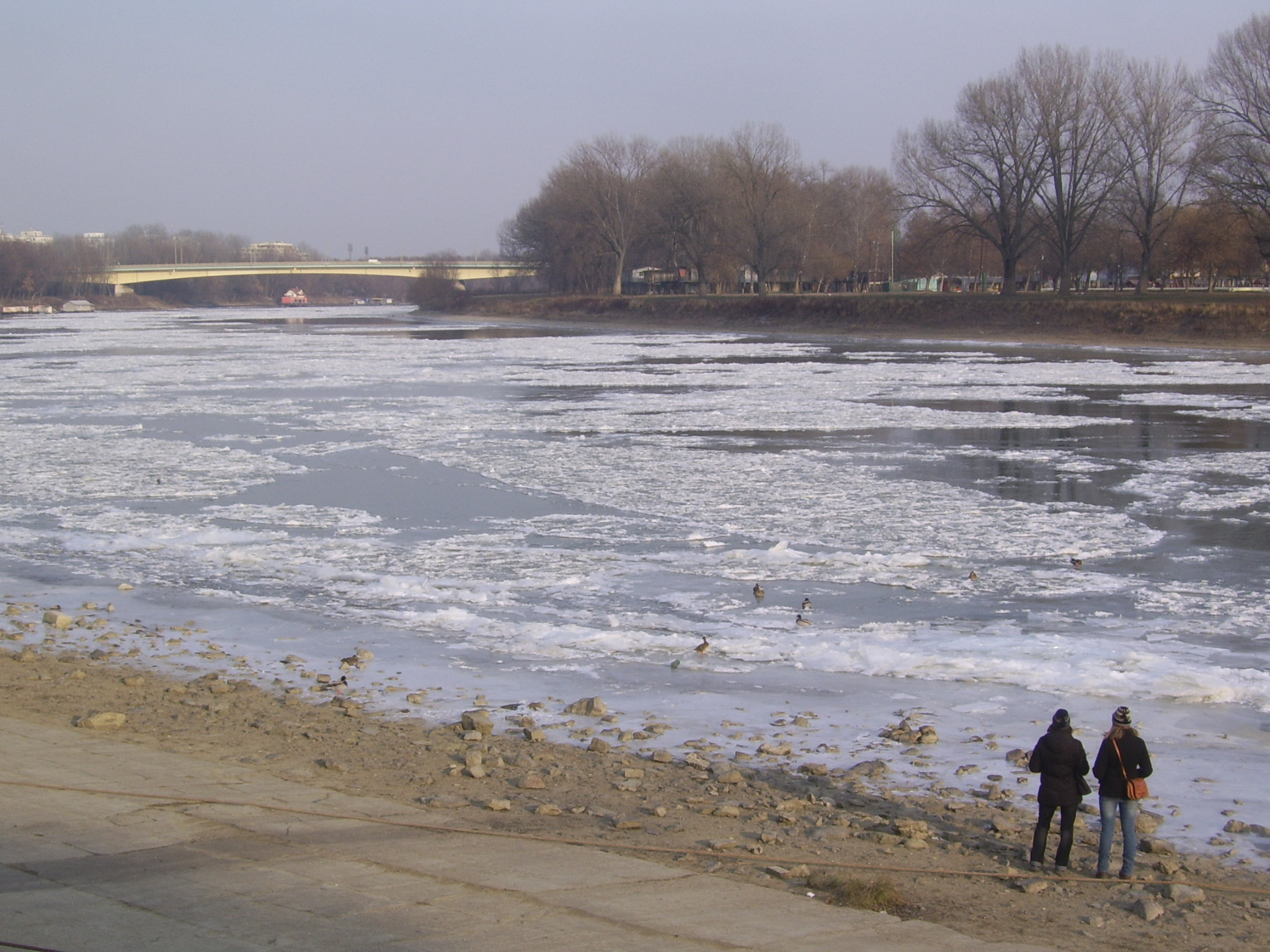 Citizens gaze the frozen Tisza in Szeged